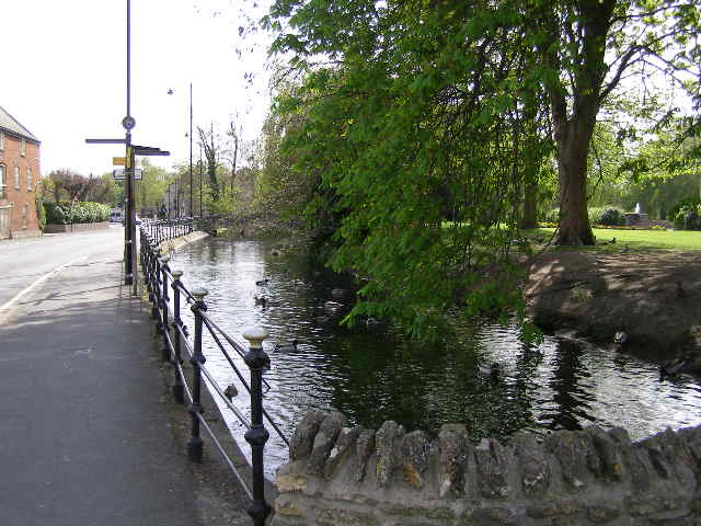 Bourne Eau A pleasant waterside footpath on one side (but alongside the busy A15) and the well-kept Memorial Gardens on the other bank.